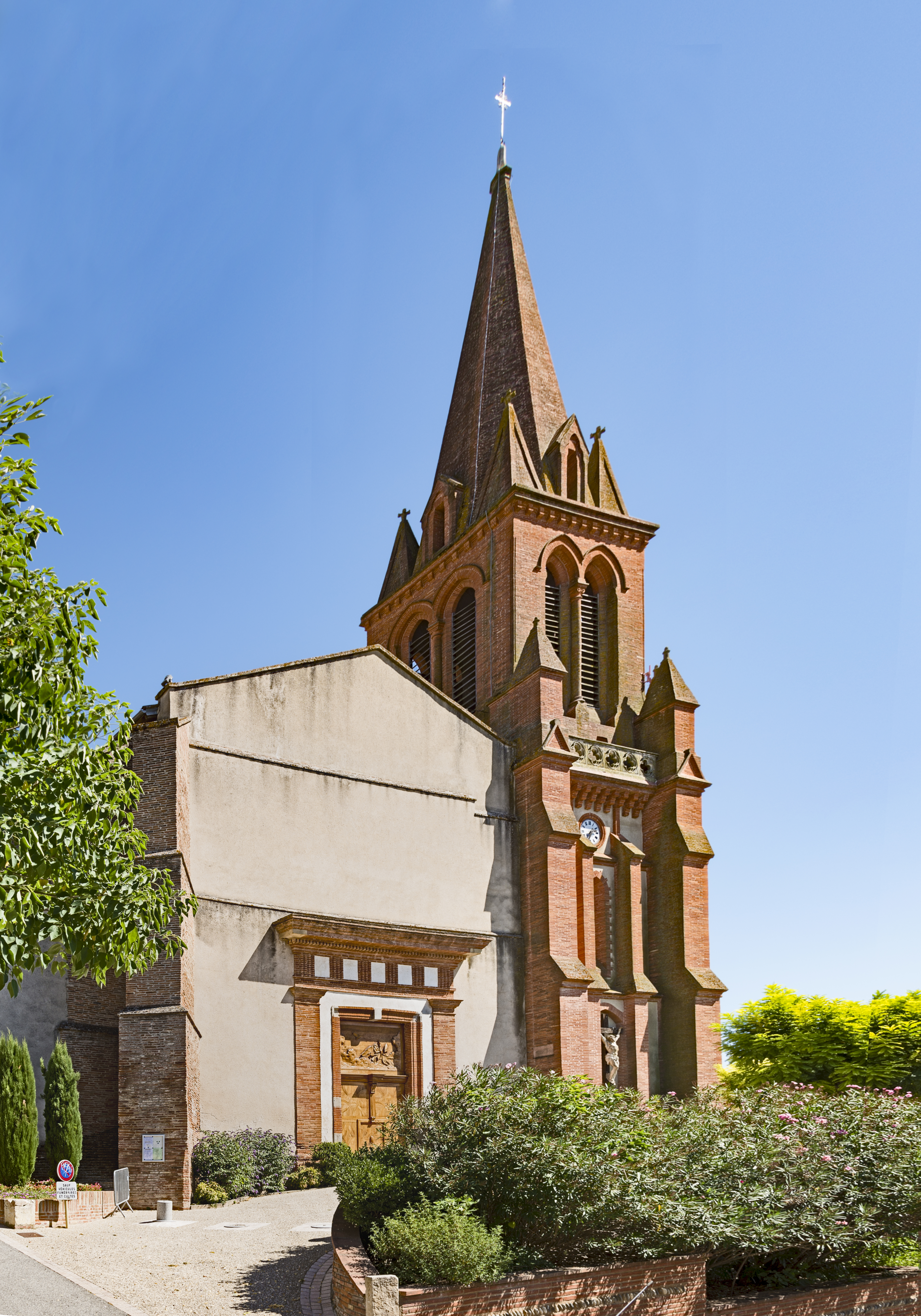 Castelnau-d'Estrétefonds. Church of St. Martin. Partial reconstruction by Gabriel Bréfeil .